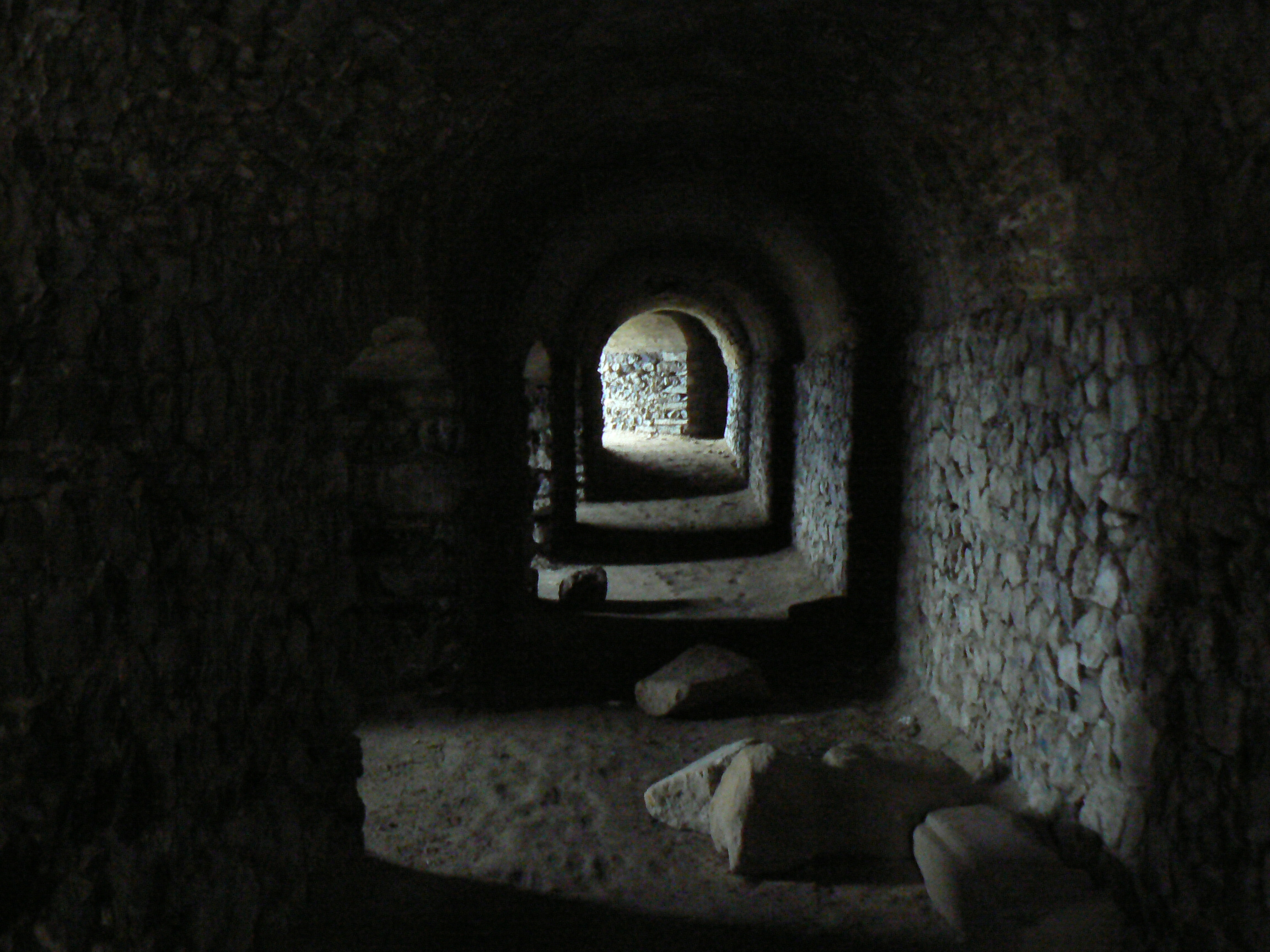 Southern defensive corridor of the Šomoška castle, located on the border between Slovakia and Hungary